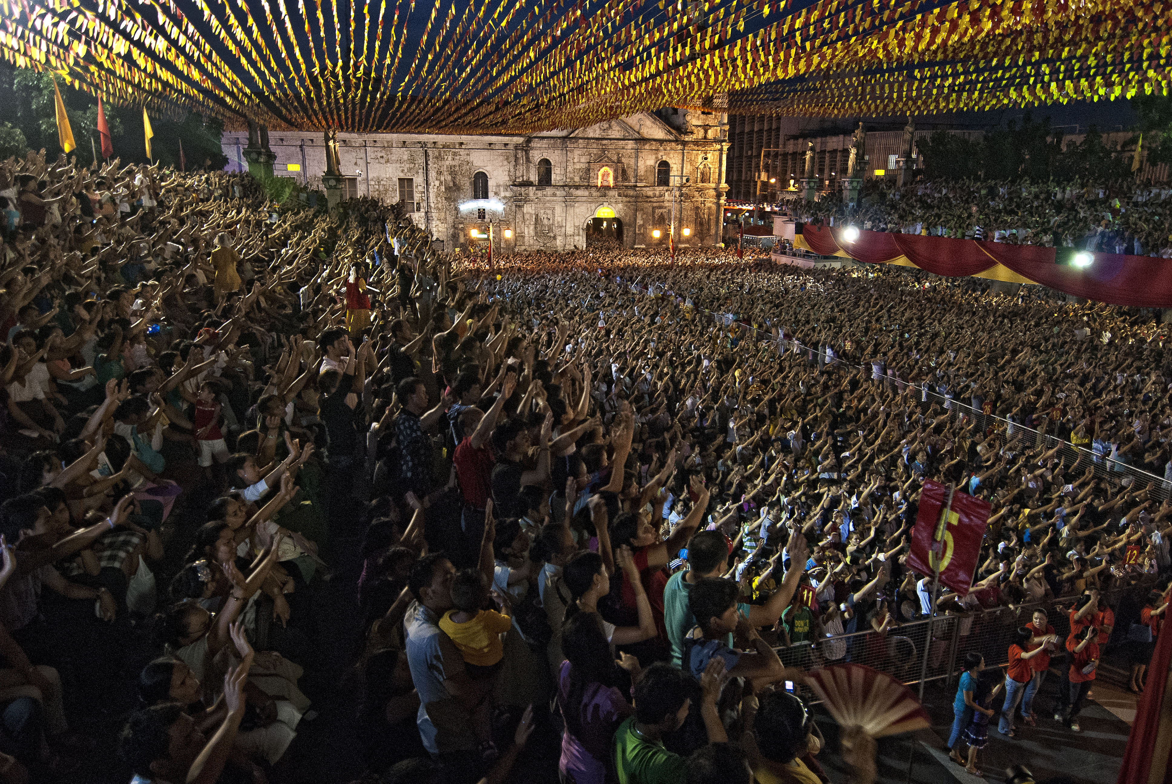 During Sinulog (yearly celebration of the feast of the Child Jesus, Santo Niño), mass is held at the Pilgrim Center (outside the church) to accomodate the huge crowds that attend every day of the two week event. The facade of the Basilica serves as backdrop of this breathtaking view...